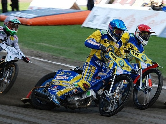 Linus Sundström in "Stal" - season 2013.